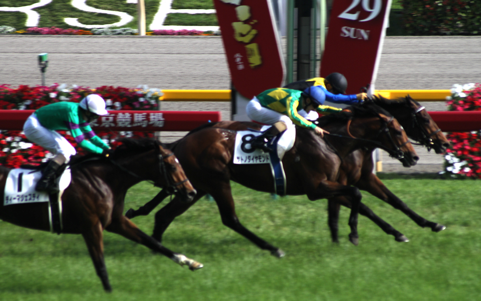 May 29th 2016, Tokyo Yūshun (Japanese Derby).